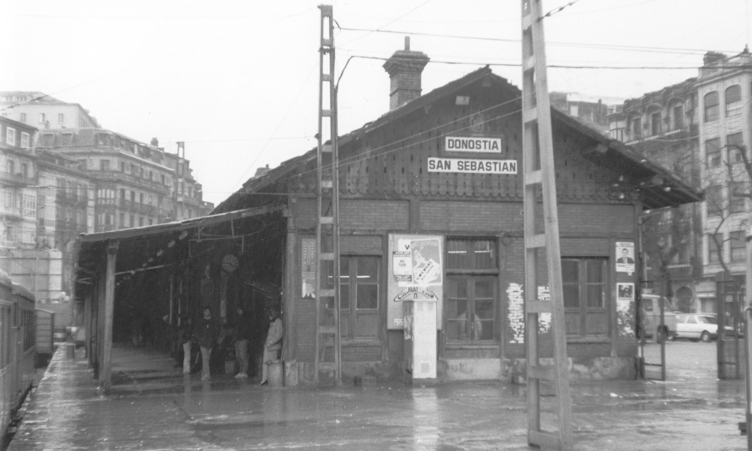 Amara train station, 1980.